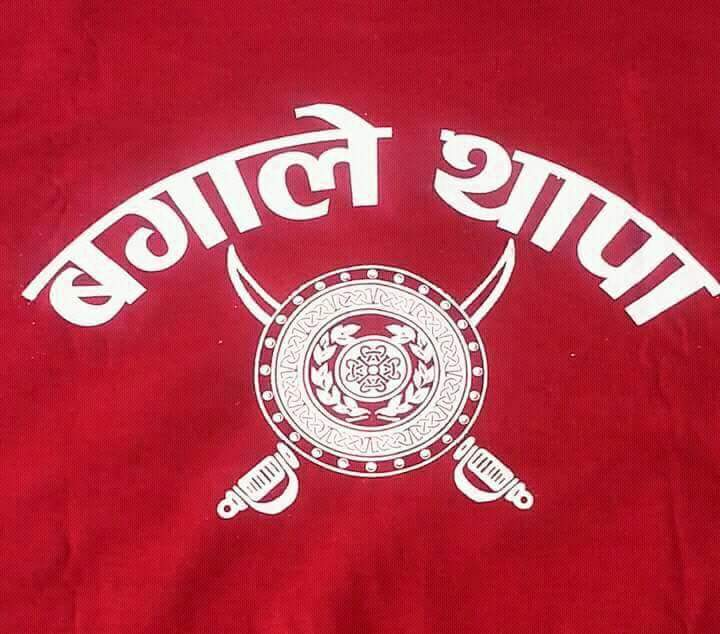 Coat of arms of Bagale Thapa clan, a Khas Kshatriya clan. Red color defines Rajas (warrior) quality of Kshatriyas. Talwar/Tarwar sword and Dhaal shield are characterstics of Hindu Kshatriya groups.